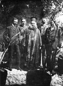 Athanasios Stournaras, Periklis Argiropoulos, Grigorios Zarvoudakis, Spiridonas Kourevelis